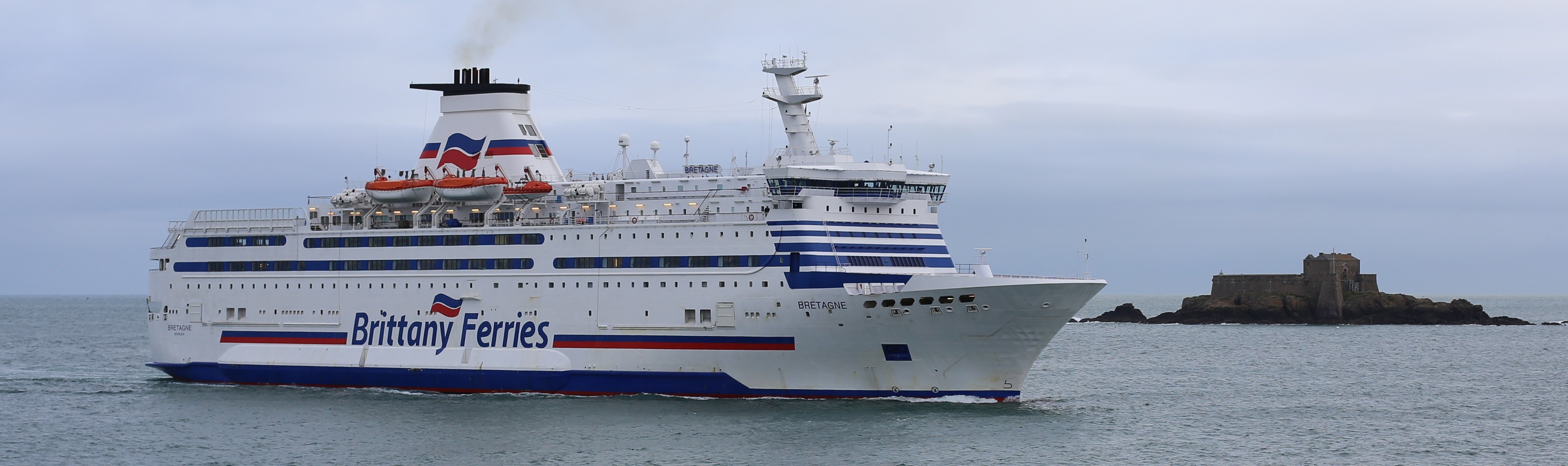 MV Bretagne entering the port of Saint-Malo.